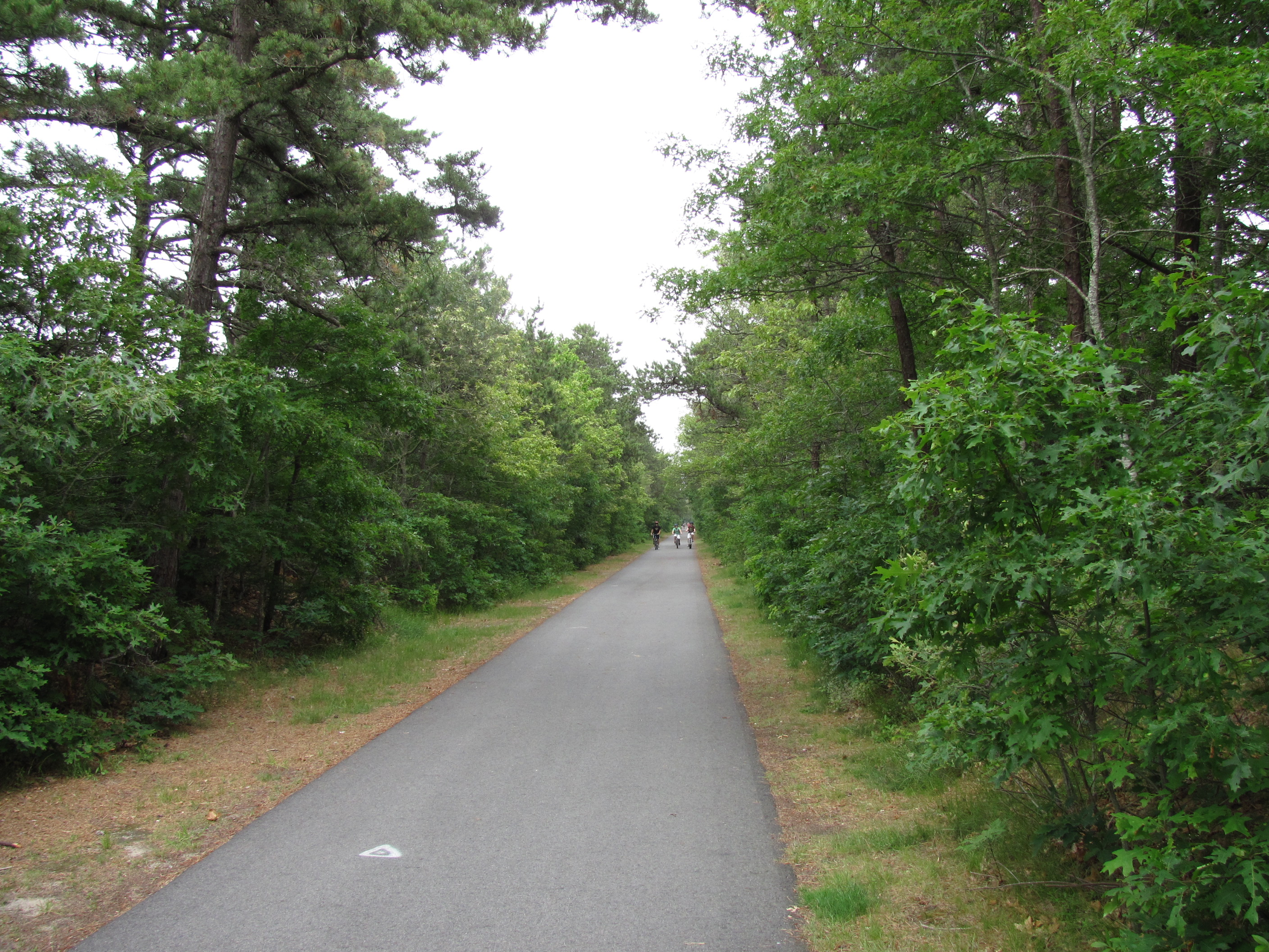 Cape Cod Rail Trail, South Dennis Massachusetts